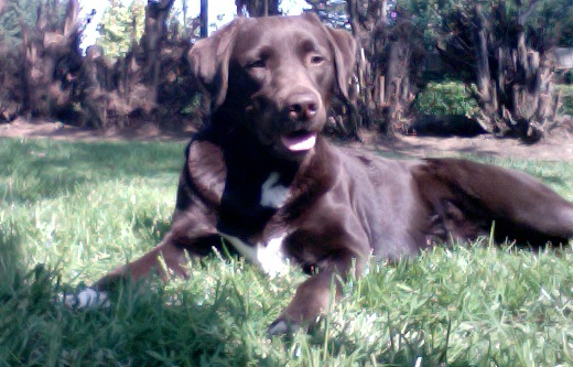 Crossbred dog with a Stabyhoun mother and a Labrador father